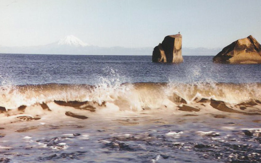 waves crashing over rocks, Clam Gulch, Alaska